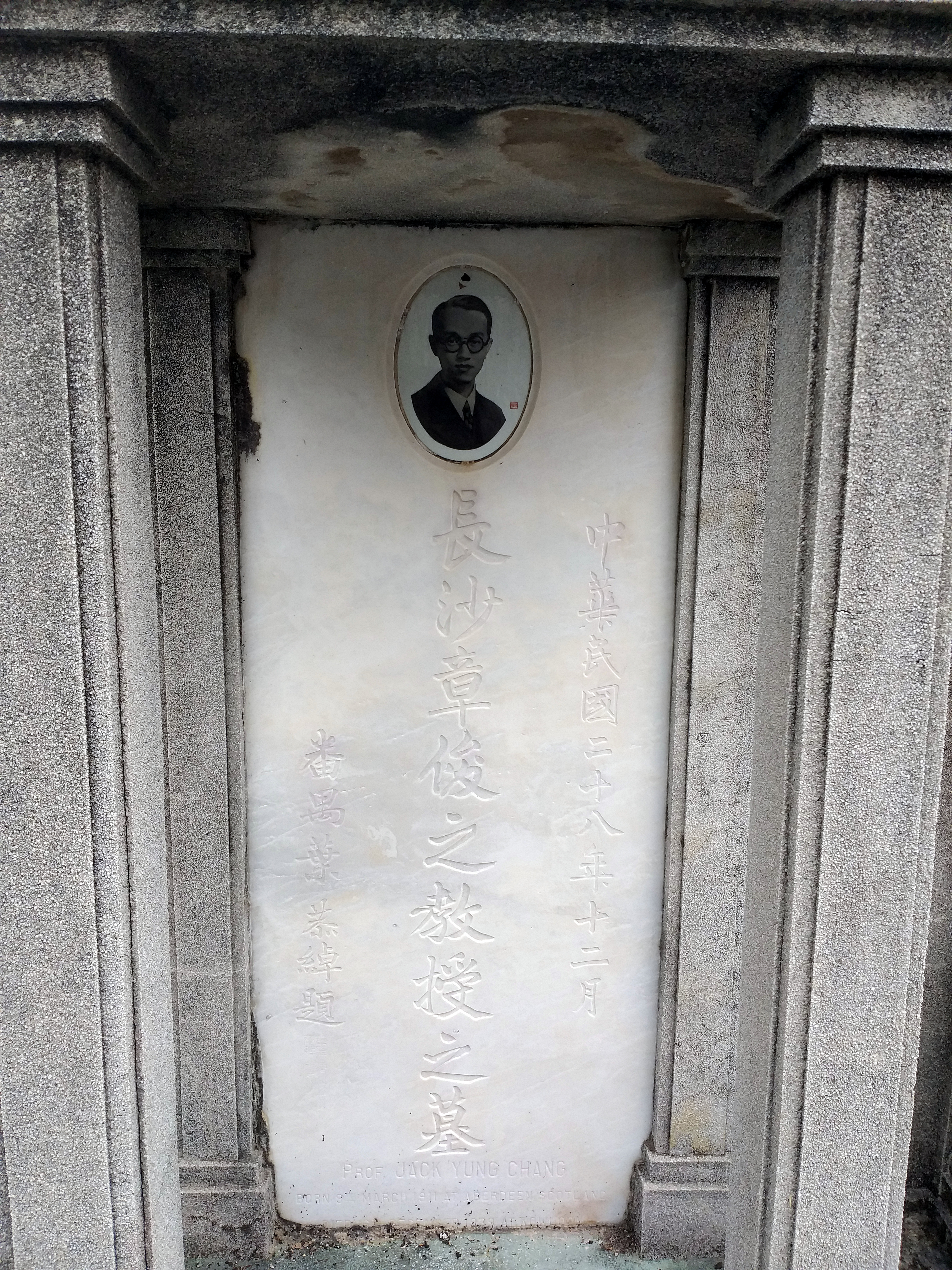 Tombstone of Jack Yung CHANG (courtesy name Junzhi), second son of Zhang Shizhao